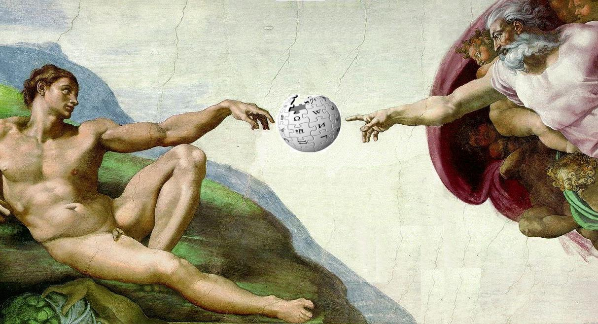 Michelangelos' Creation of Adam with the logo of Wikipedia added between God and Adam. (Michelangelo di Lodovico Buonarroti Simoni 1475 - 1564).